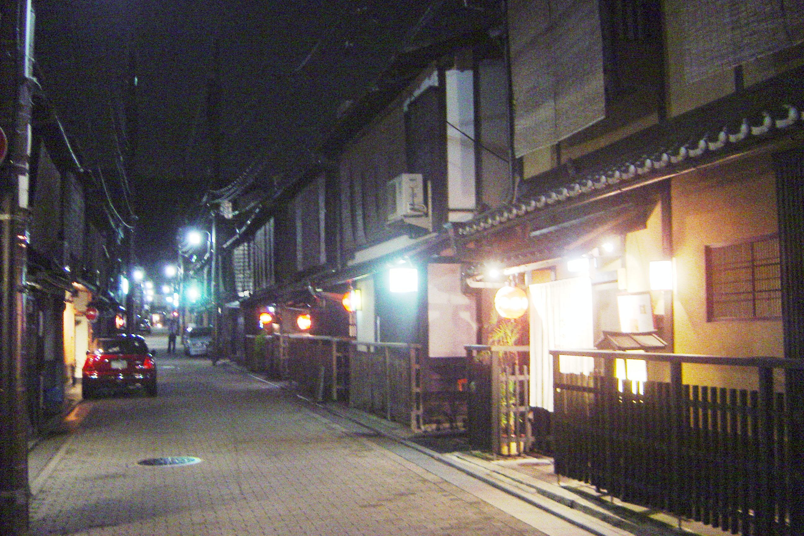 the exclusive restaurants in Gion in Kyoto, Japan (colors boosted up a lot)